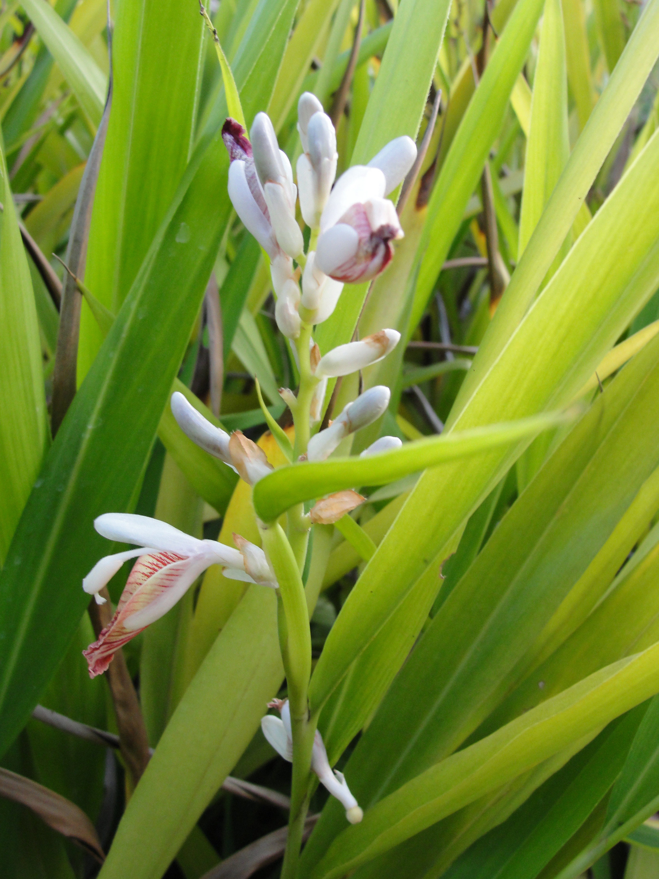 A flower of Galanga plant. Location: A herbal Garden in Forest Extension Center, Sithar Koyil, Salem, Tamil Nadu, India.